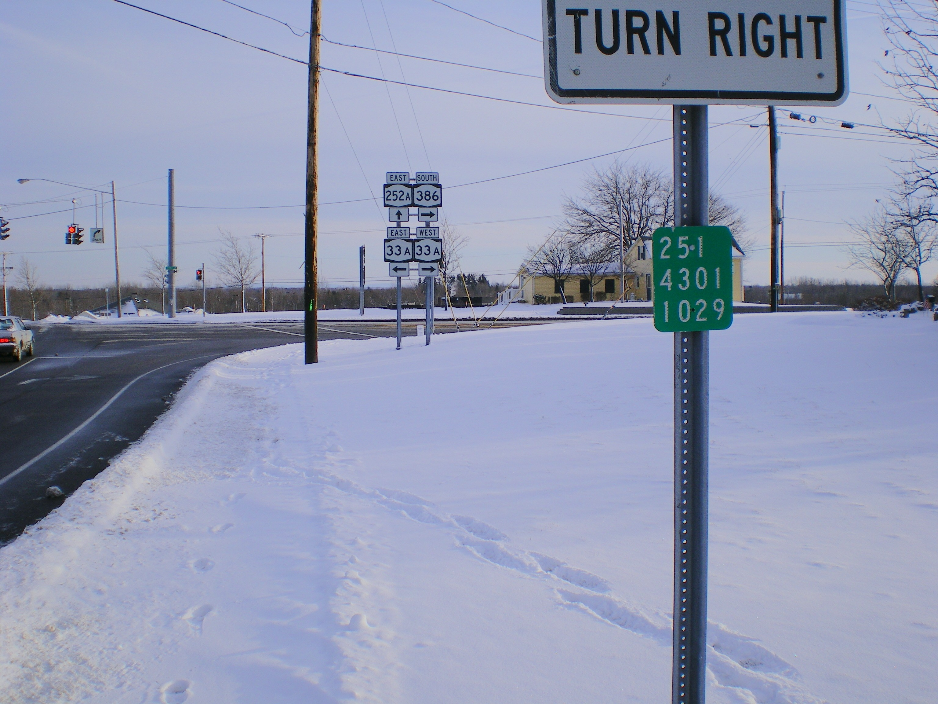 A reference marker for New York State Route 251 on New York State Route 386 in Chili. The portion of NY 386 south of New York State Route 33 was originally designated as part of NY 251. Incidentally, the portion of NY 386 that this marker is located on is no longer state-maintained and NY 252A was removed less than a year before this photo was taken.